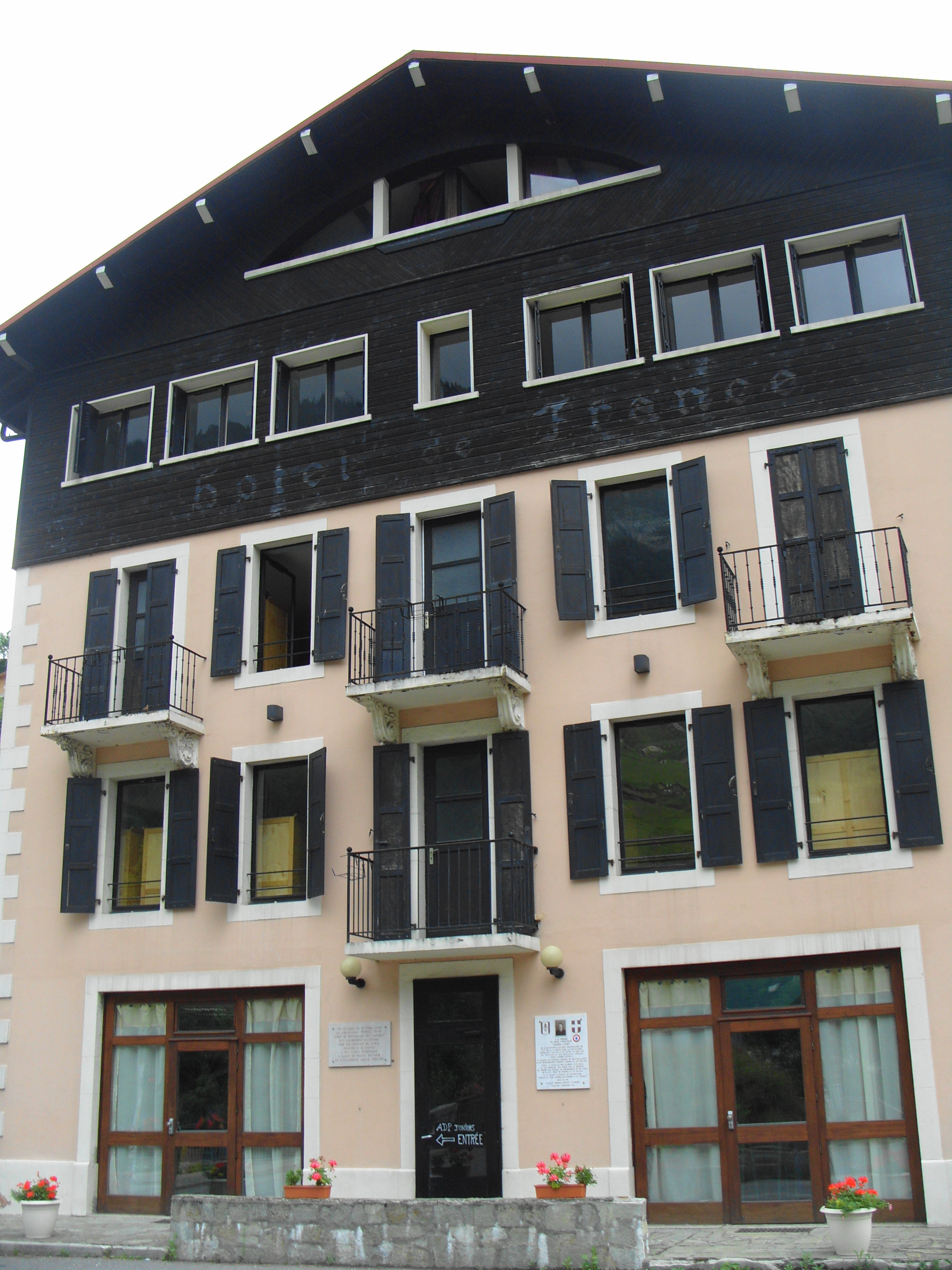 Entremont